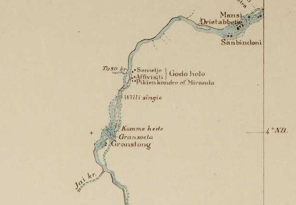 Tapanahoni - Godo_holo (detail), 1882 Publisher ['s-Gravenhage: Topographisch bureau van het Ministerie van defensie Pub. year 1882] Survey date 1860-1879 Scale 1:200.000